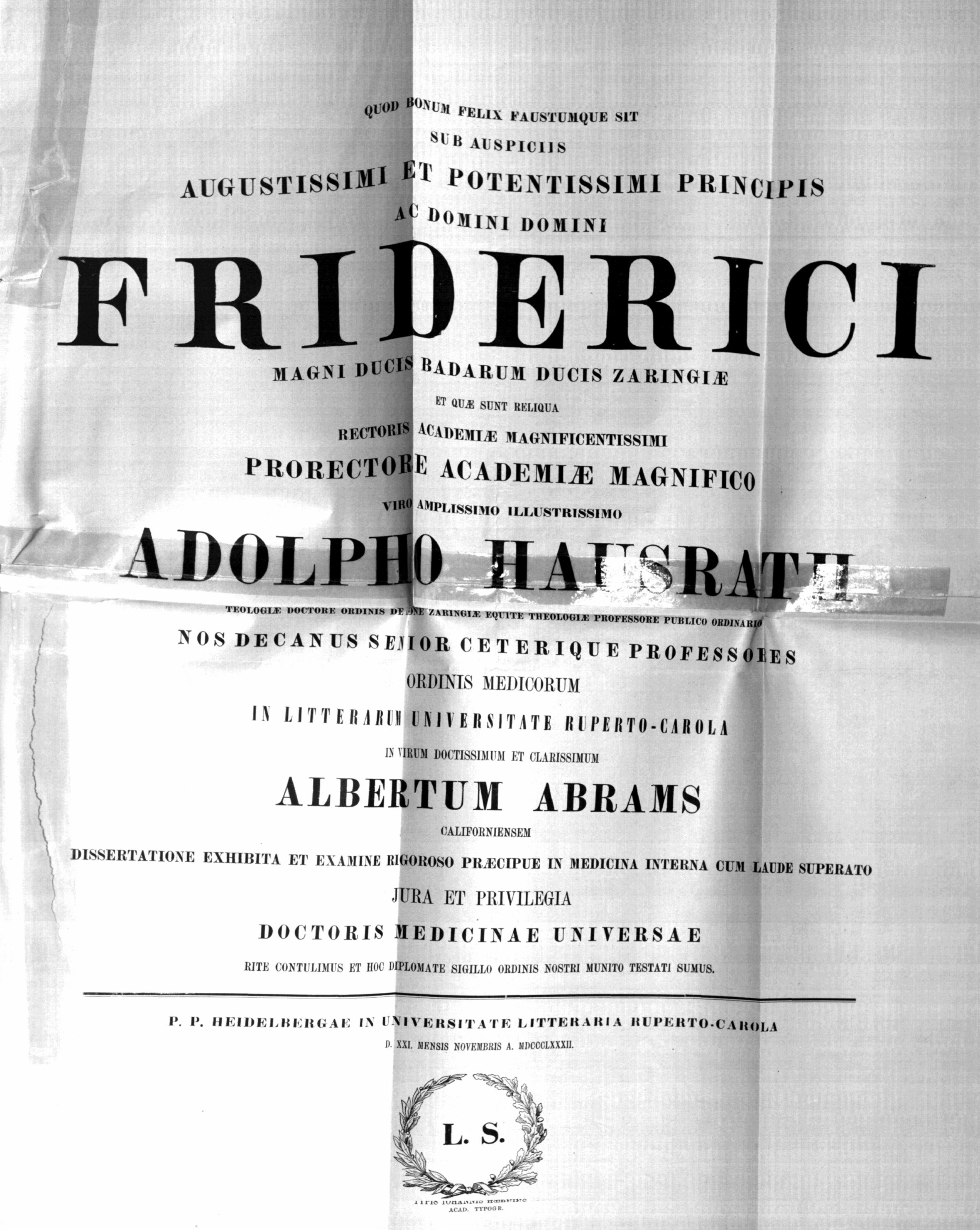 Certificate of Doctor's Degree from Ruprecht-Karls-Universität Heidelberg, 21.11.1882, for Albert Abrams